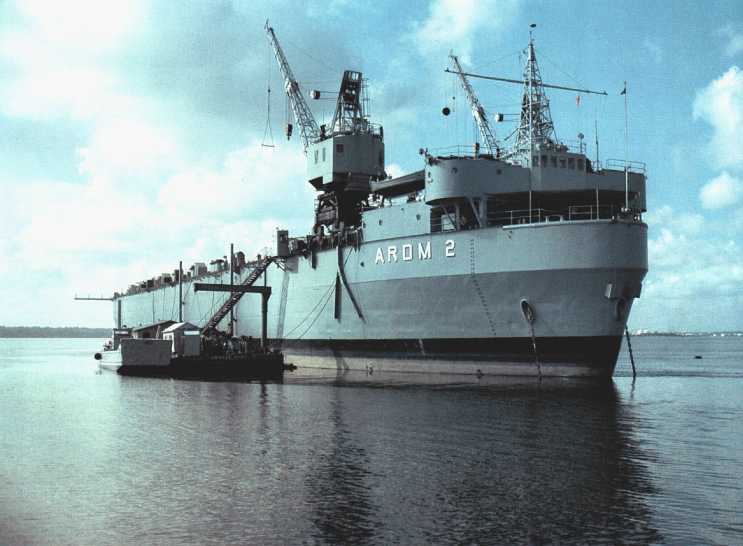 Alamogordo (ARDM-2) at anchor on the Cooper River, Charleston, South Carolina (USA), circa 1981.